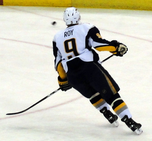 Derek Roy of the Buffalo Sabres heads for the puck in this February 1, 2010 game against the Pittsburgh Penguins at Mellon Arena in Pittsburgh, PA.